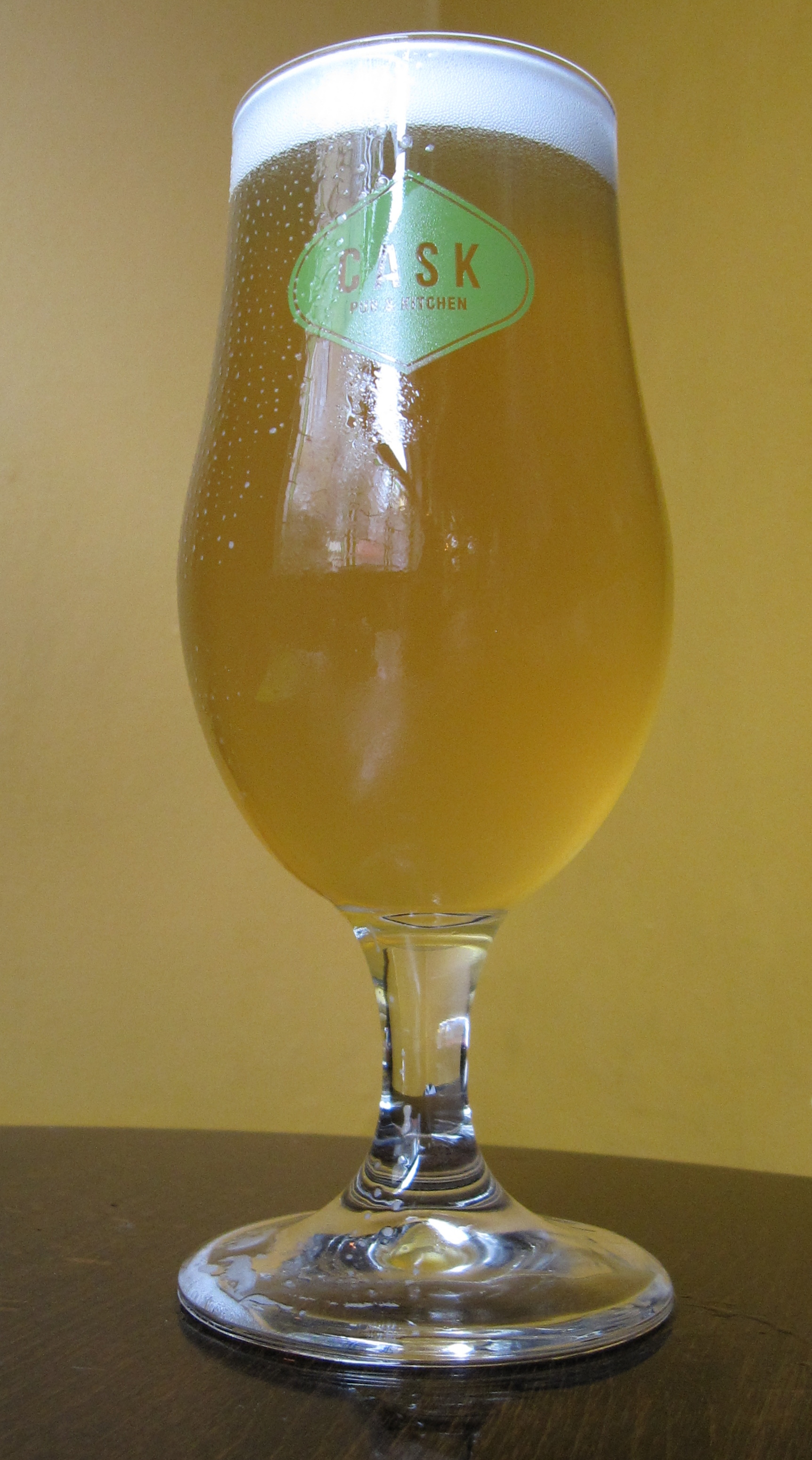 A glass of Grätzer from Westbrook Brewing Company in Mt. Pleasant, South Carolina